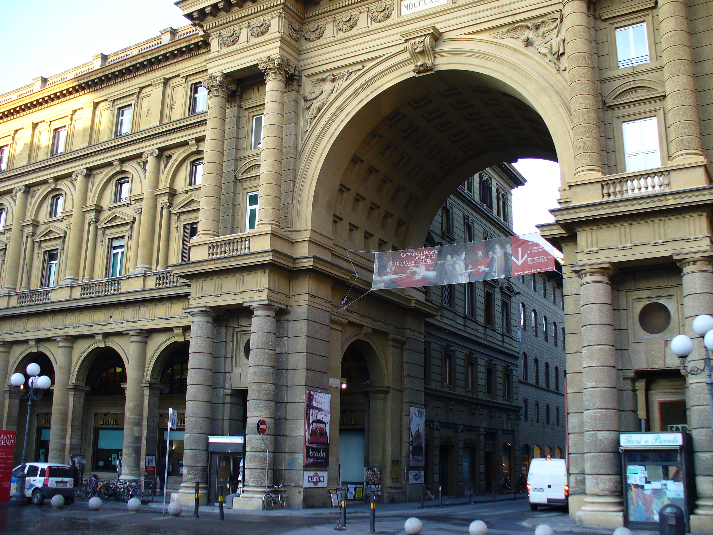 Piazza della Repubblica in Florence